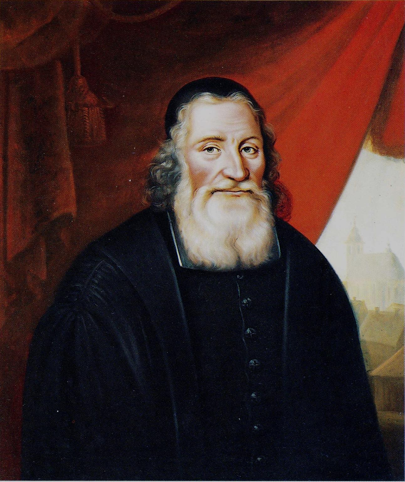 Johannes Gezelius the Elder (1615–1690), bishop of Åbo. Original portrait, made by David Klöcker Ehresntrahl in the 17th century, is now kept in the Gripsholm castle in Sweden. This copy was made in 1839 by Johan Erik Lindh at the order of Helsinki University, which still owns it today.